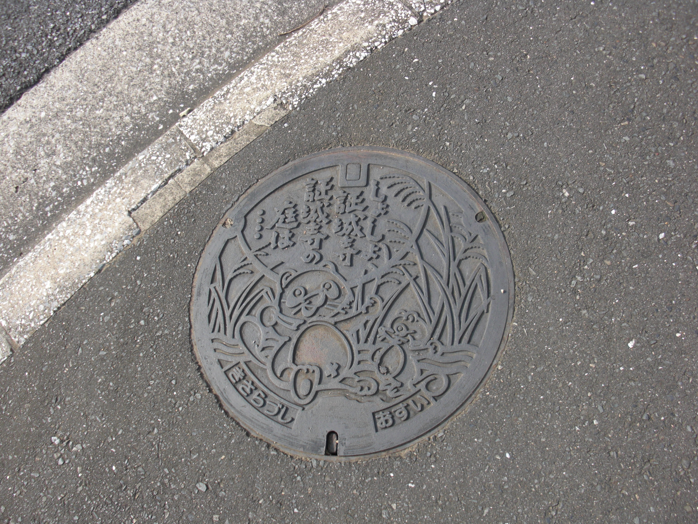 This is a manhole cover in Kisarazu, Chiba, Japan.